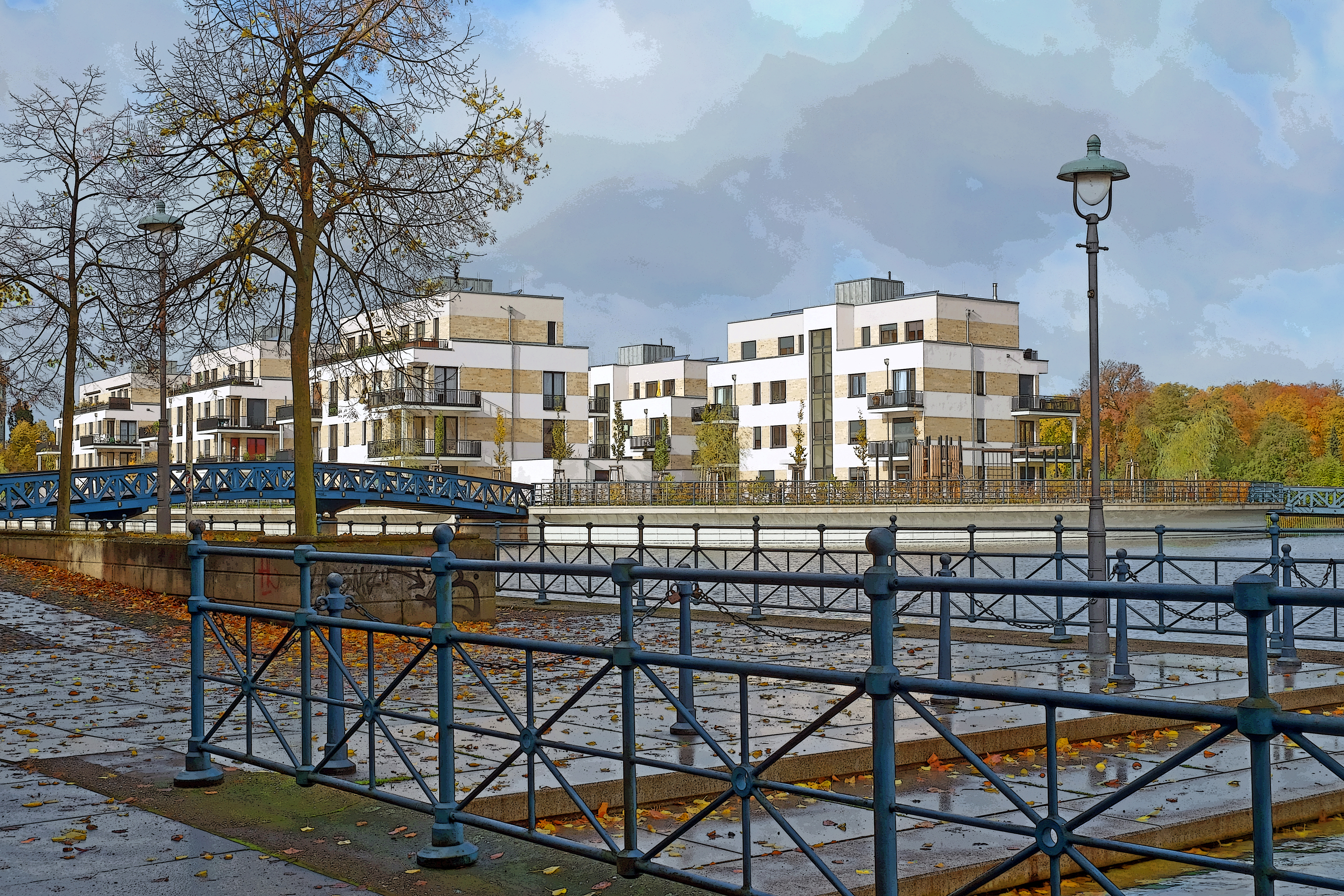 Tegel Humboldt-Insel